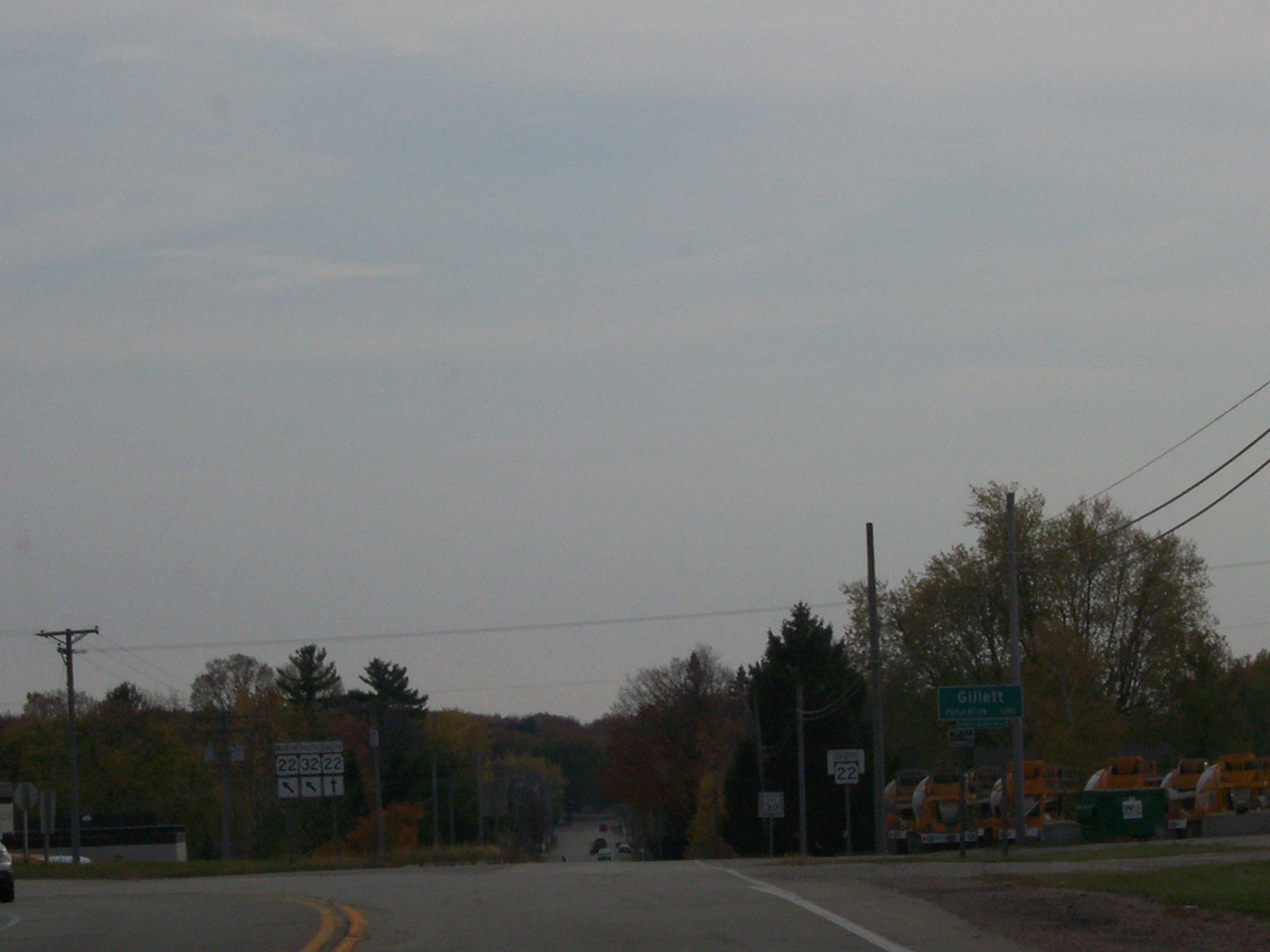 Travelly south on Highway 32 (Wisconsin) at its west junction with Highway 22 (Wisconsin) near Gillett, Wisconsin, United States. This image was taken October 8, 2006 by User:Royalbroil (image date is wrong) Category:Images of Wisconsin highways